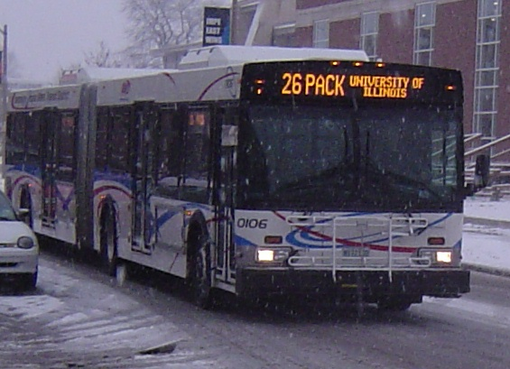 Champaign-Urbana number 26 bus